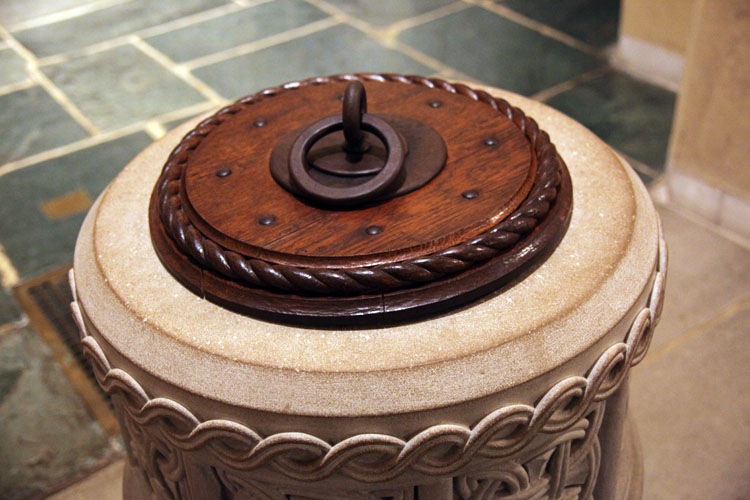 Baptismal font in the Resurrection Chapel under the south transept on the crypt level of the Washington National Cathedral in Washington, D.C. Resurrection Chapel is in the Norman style. It was completed on June 15, 1925. The chapel began construction under Bishop Alfred Harding, the second Episcopal bishop of Washington, D.C. But Harding died in 1923 -- just two years before the chapel was completed. Harding's family contributed a large sum of money to have the chapel completed, and asked that the chapel celebrate life rather than death. Hence, the chapel became known as the Resurrection Chapel. The baptismal font in Resurrection Chapel is also in memory of Harding. Carved from buff Indiana limestone, it was designed by architect Philip Hubert Frohman and carved by Edward Ratti.